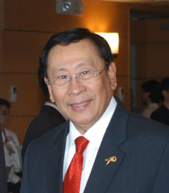 Deputy Secretary Negroponte meets with Philippine Foreign Minister Alberto Romulo at ASEAN meetings in Manila, Philippines, August 1-2, 2007. State Department photo.